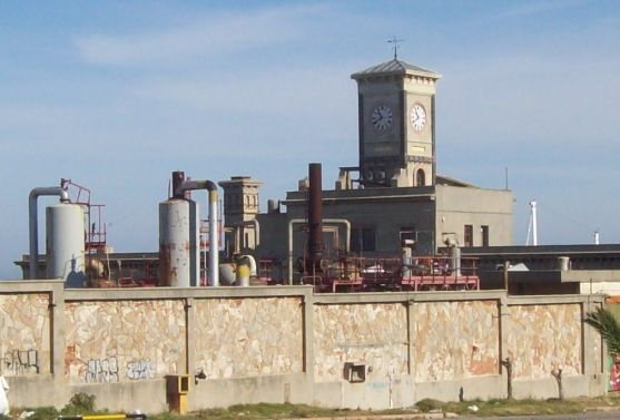 Building: Compañía del Gas Location: Montevideo, Uruguay